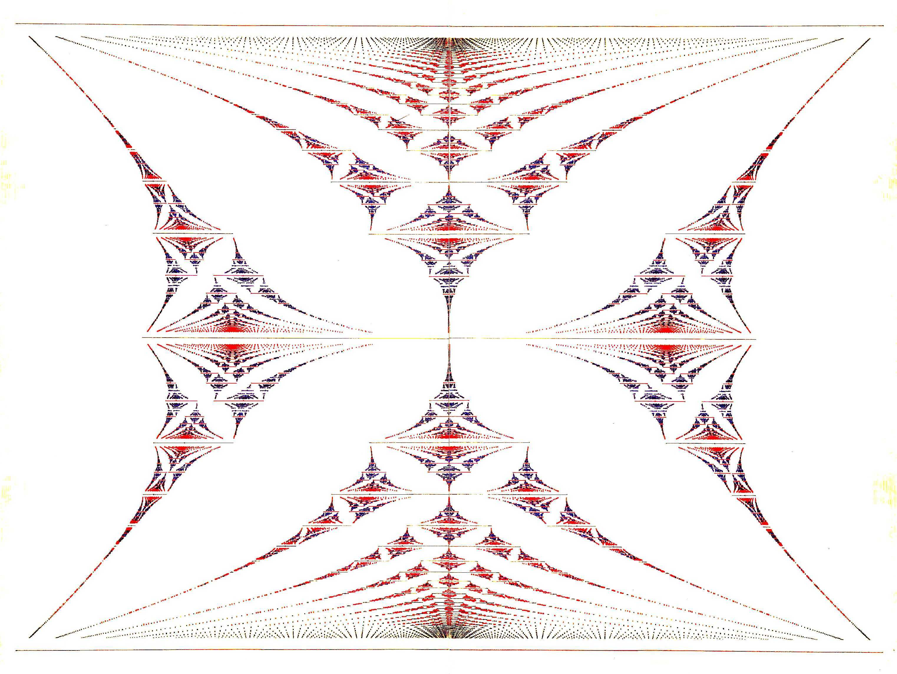 This is an early rendering of Hofstadter's butterfly. He named it Gplot in 1974.